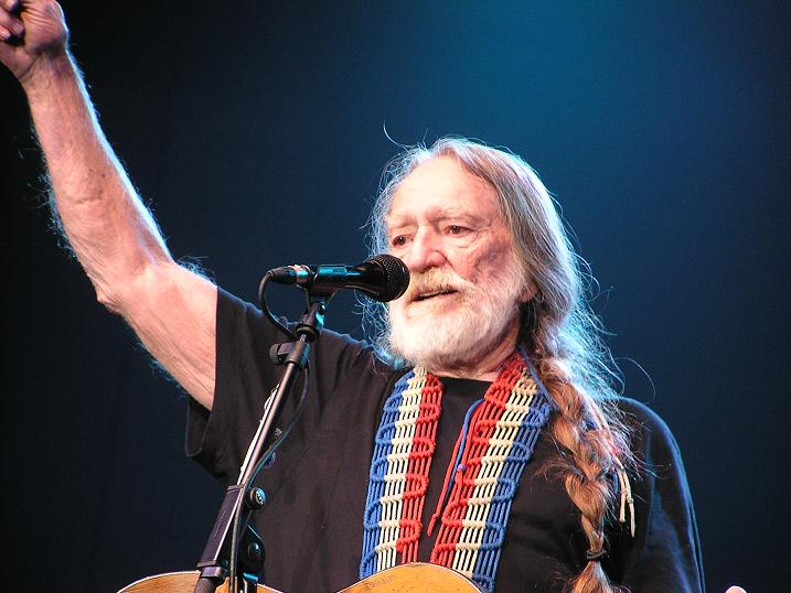 Willie Nelson performing at Cardiff, UK